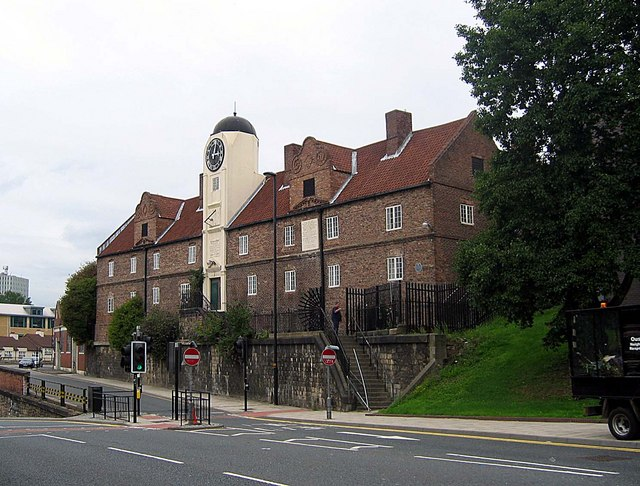 The Keelman Hospital Built 1701 as almshouses for keelmen and their widows.